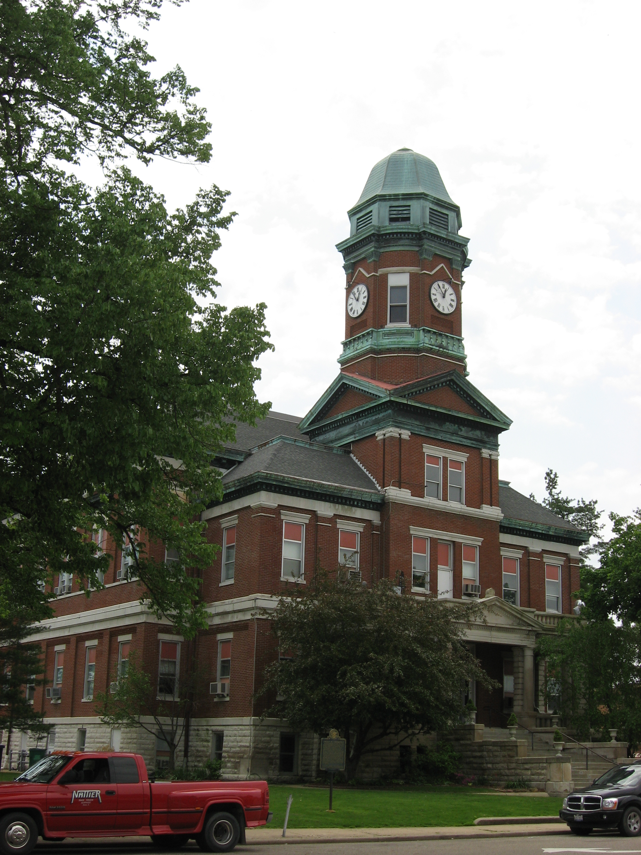 Eastern side and front of the Lawrence County Courthouse, located at 1100 State Street (U.S. Route 50) in downtown Lawrenceville, Illinois, United States. Built in 1889, it is listed on the National Register of Historic Places.